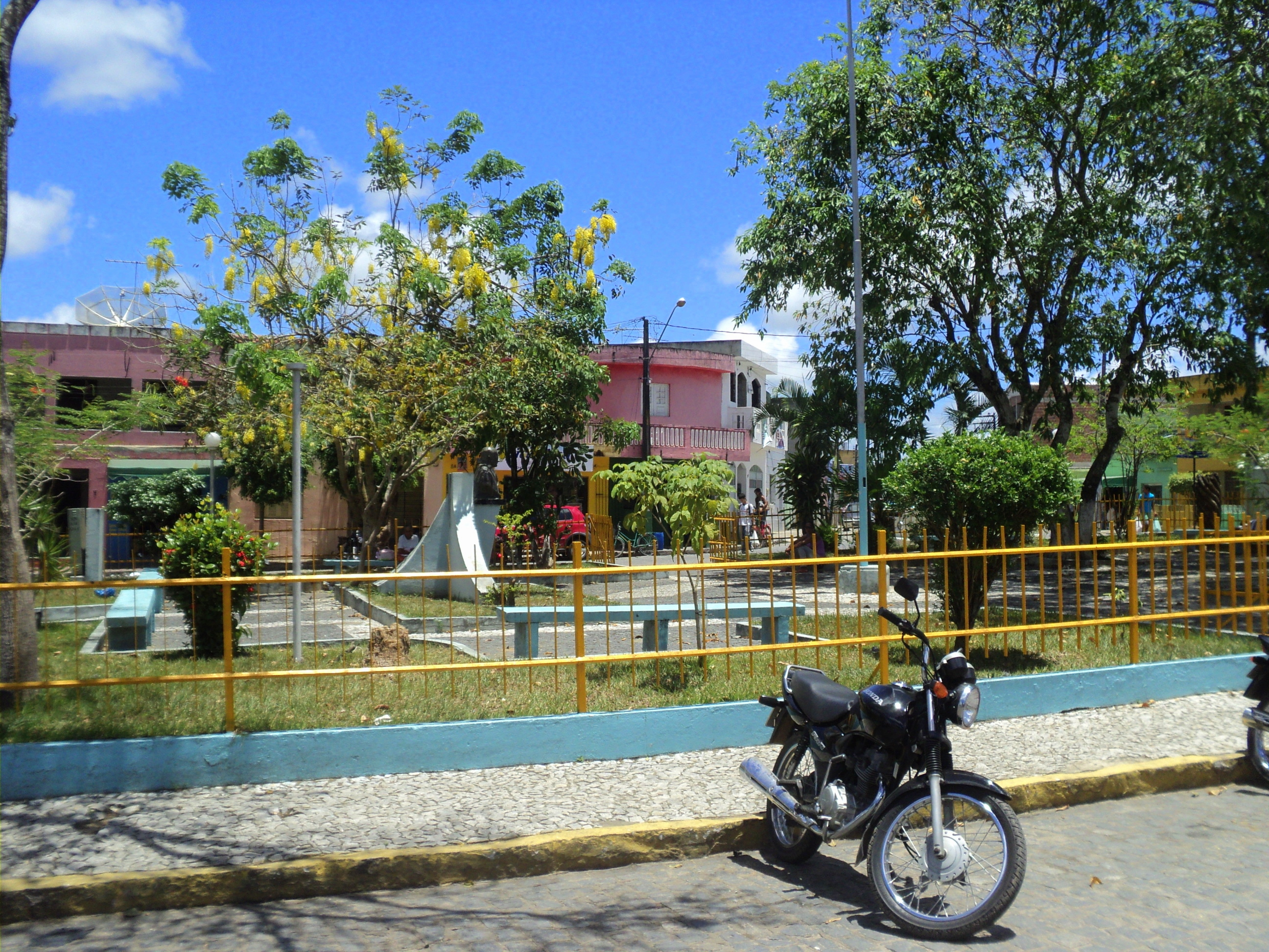 Goiana Downtown